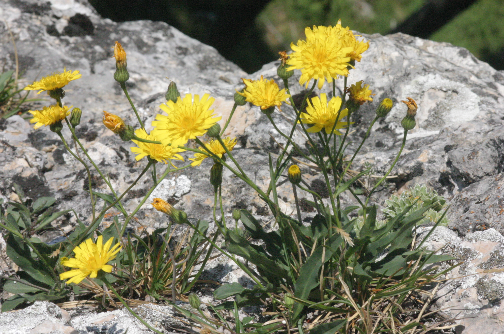 Hieracium humile